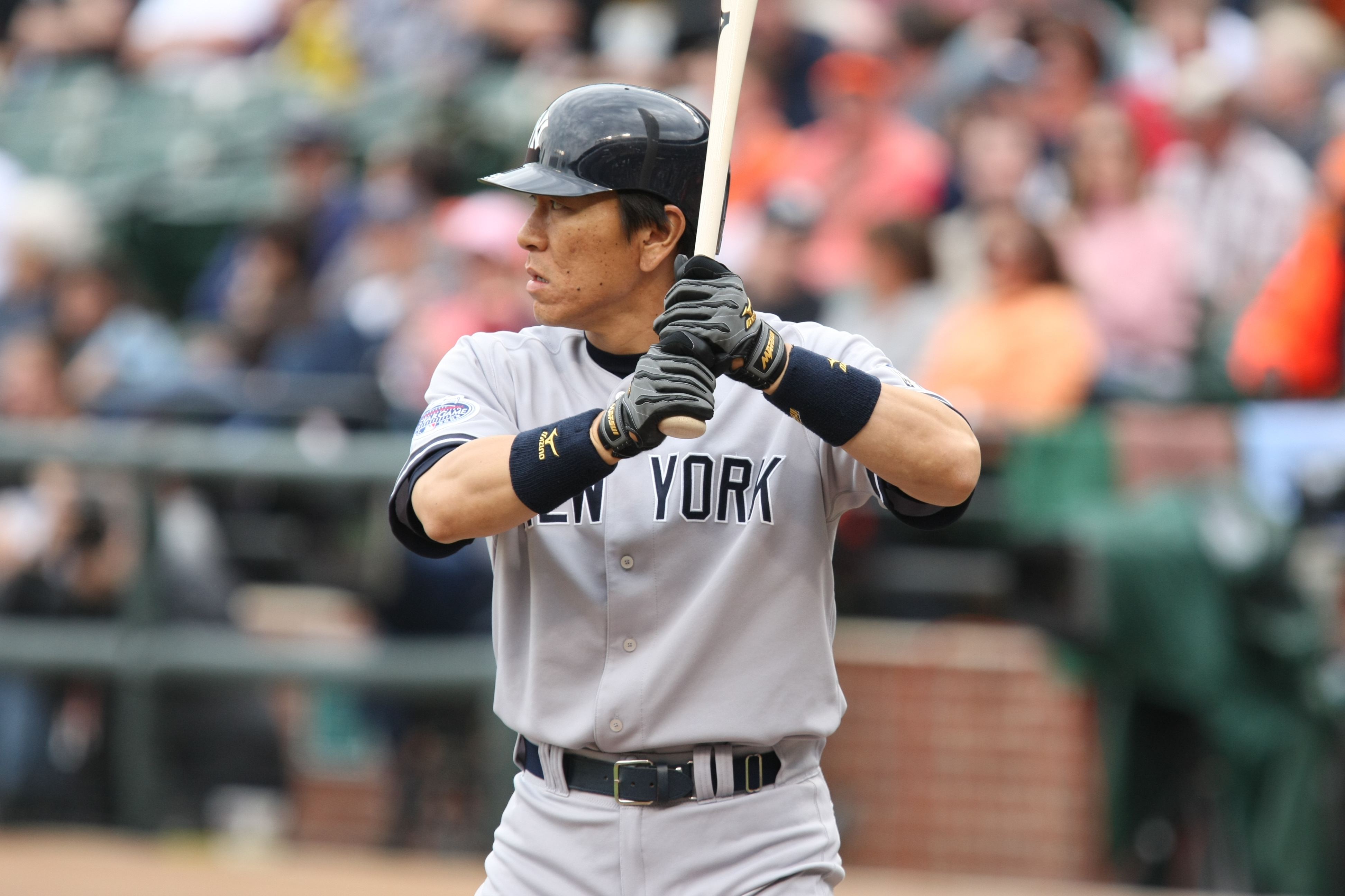 Hideki Matsui Reprint from Flickr